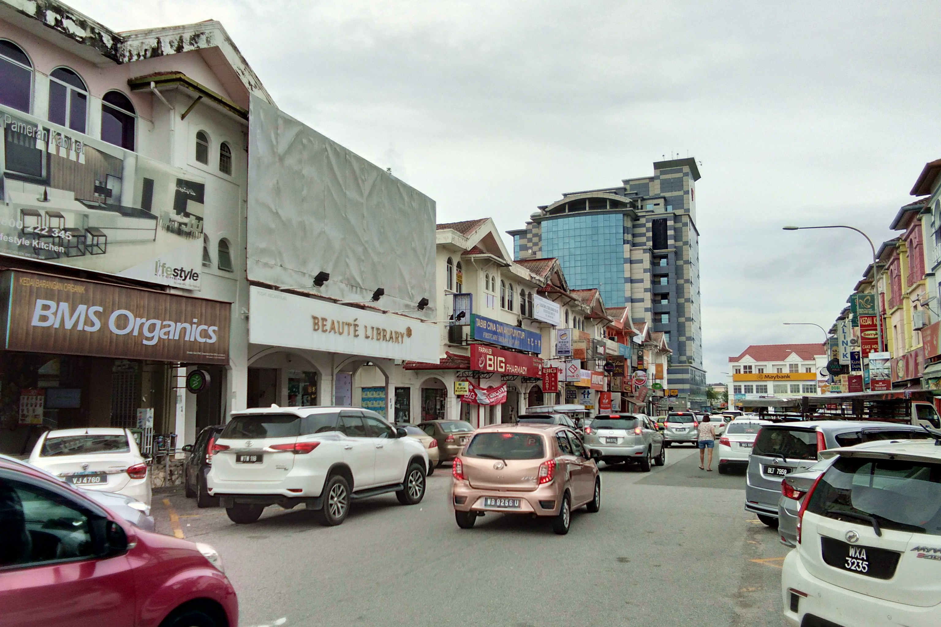 Taipan Business Centre in December 2018.